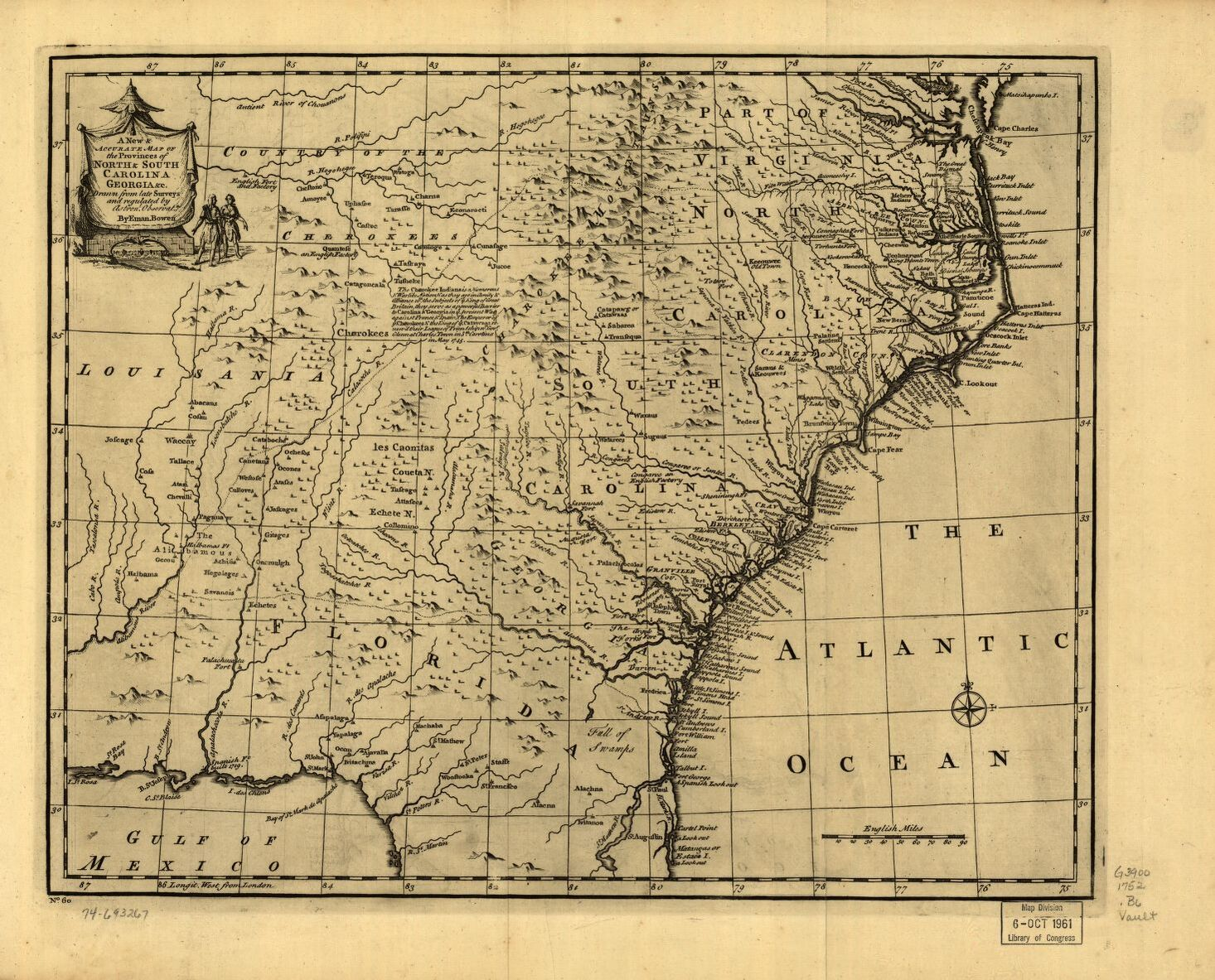 Scale ca. 1:2,900,000. Relief shown pictorially. "No. 60." From the author (Bowen, Emanuel, -1767): A complete atlas or distinct view of the known world. [London, 1752]